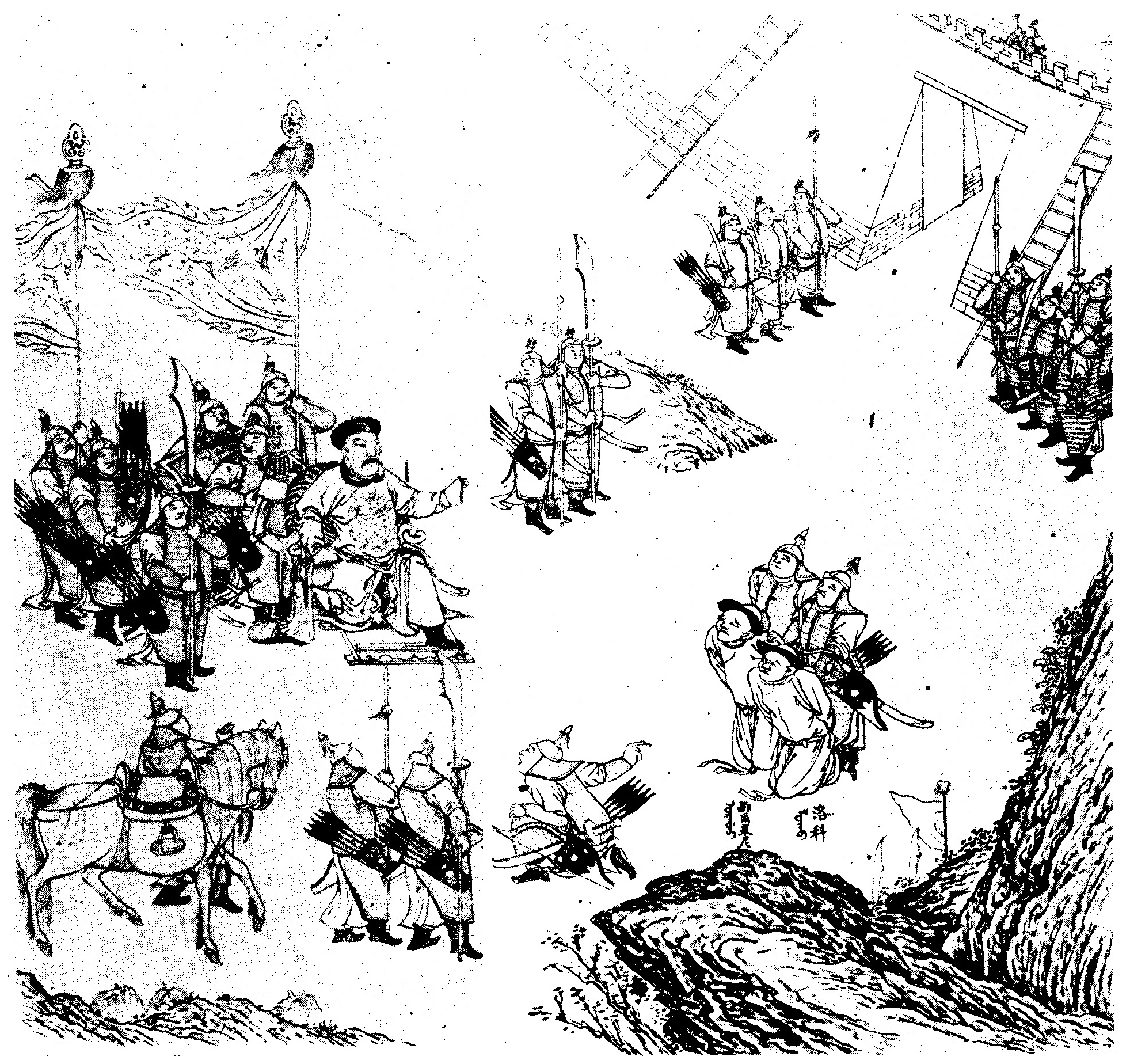 弩尔哈齐宥鄂爾果尼、洛科